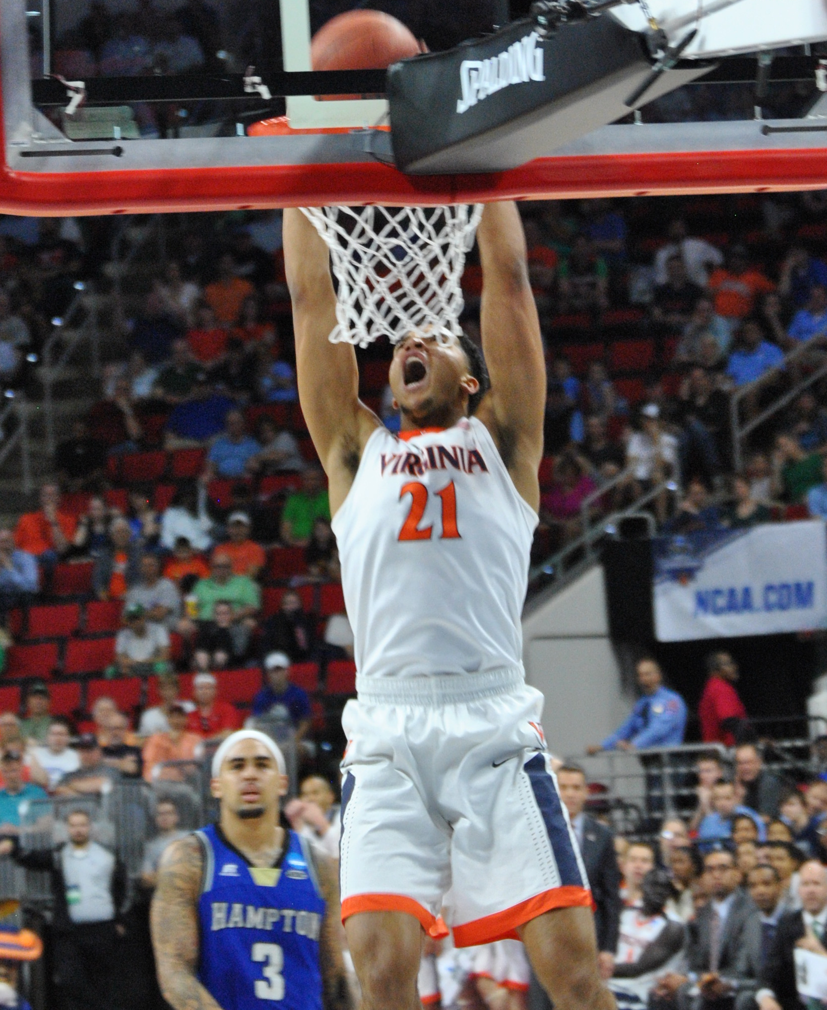 Isaiah Wilkins slams it home for the Cavaliers.